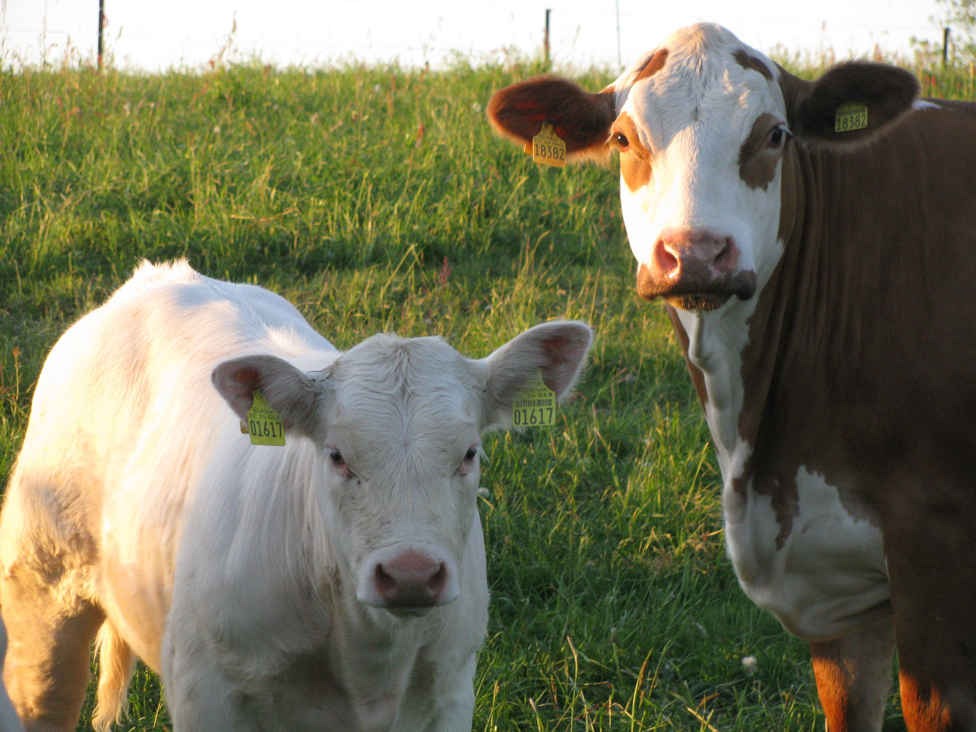 nurse cow of a Charolais-calf